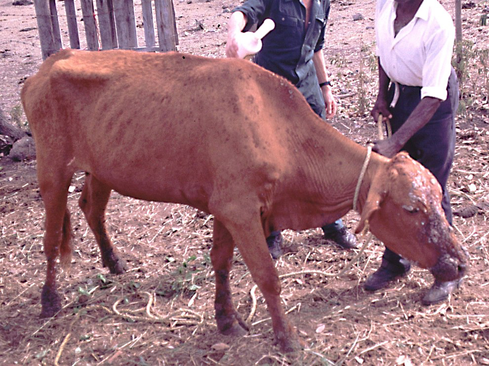 A steer being treated with an acaricide as a pour-on formulation, in St Kitts & Nevis. The oily carrier is in the white bottle, with a measuring applicator spout. The steer was infested with Amblyomma variegatum ticks and it had severe lesions caused by Dermatophilus congolensis bacteria on its head and body.